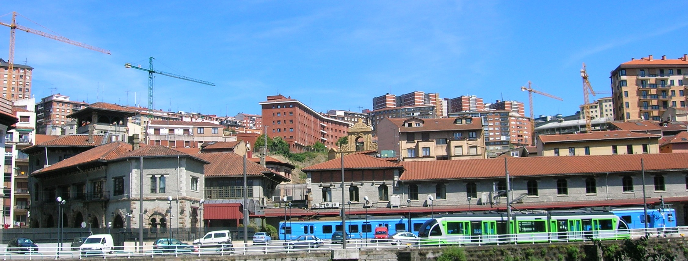 Euskotren terminus train station of Atxuri, in Bilbao